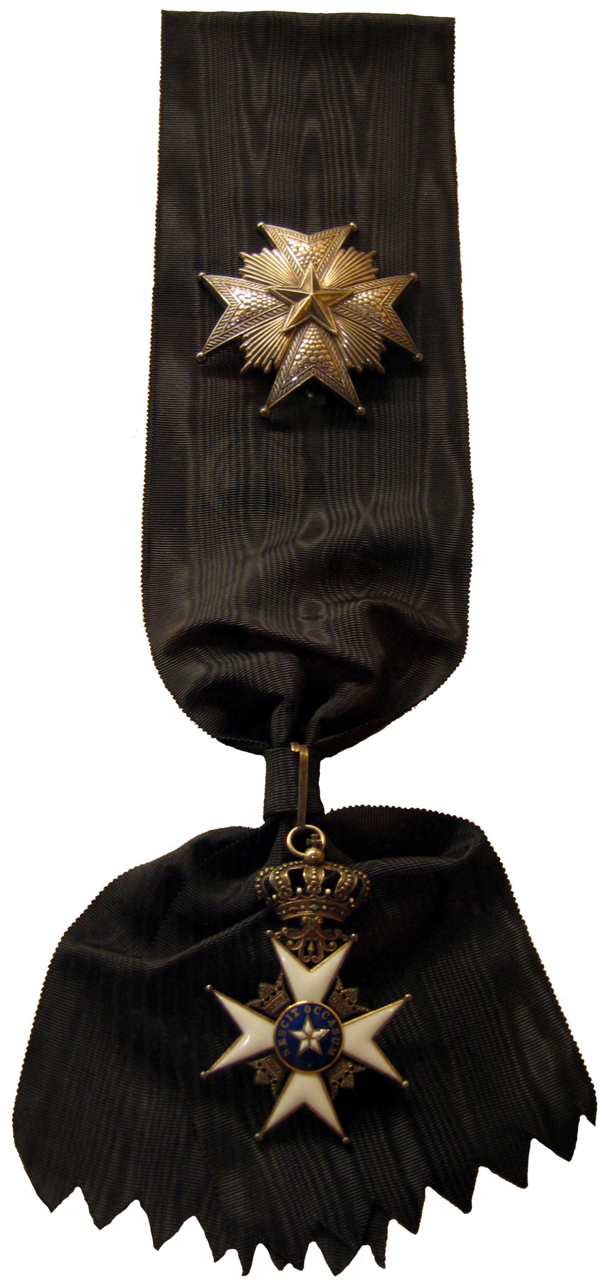 Insignia of the Order of the Polar Star, Sweden.